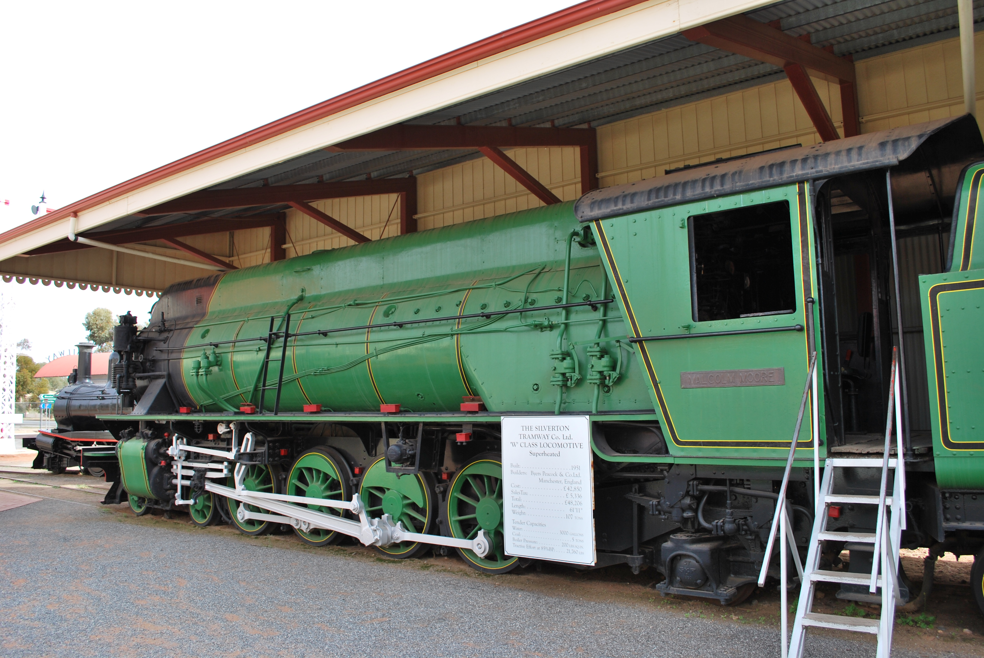 W class locomotive that ran on the Silverton tramway in Broken Hill, New South Wales